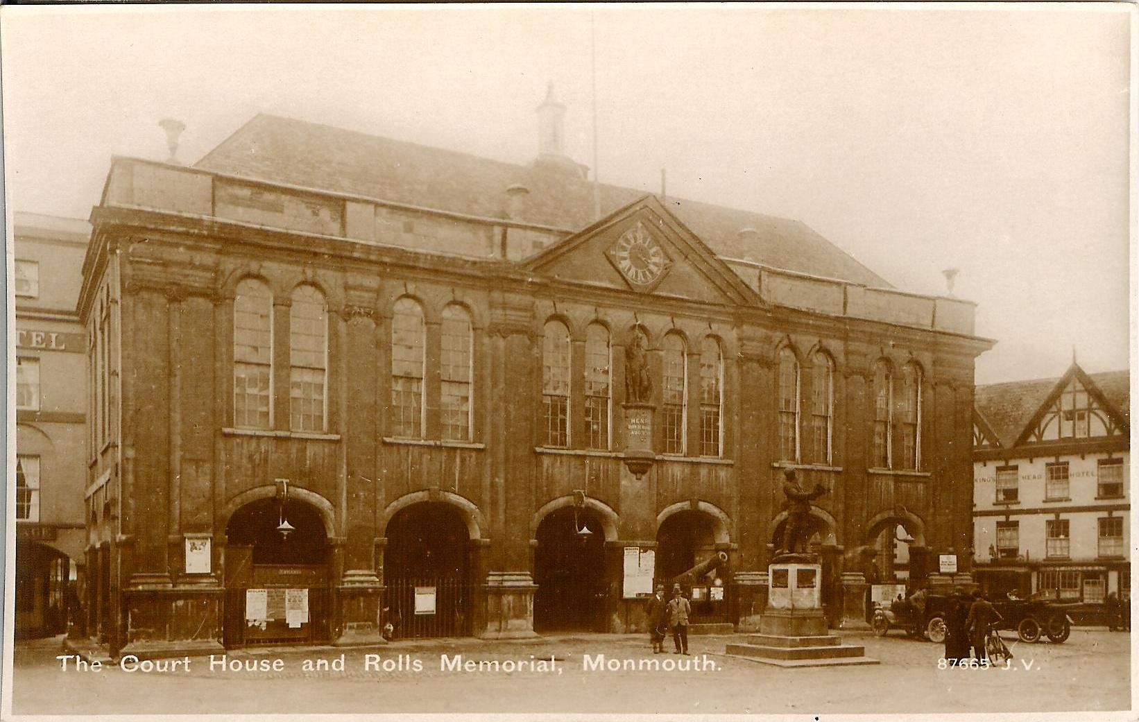 Monmouth Shire Hall 1920s